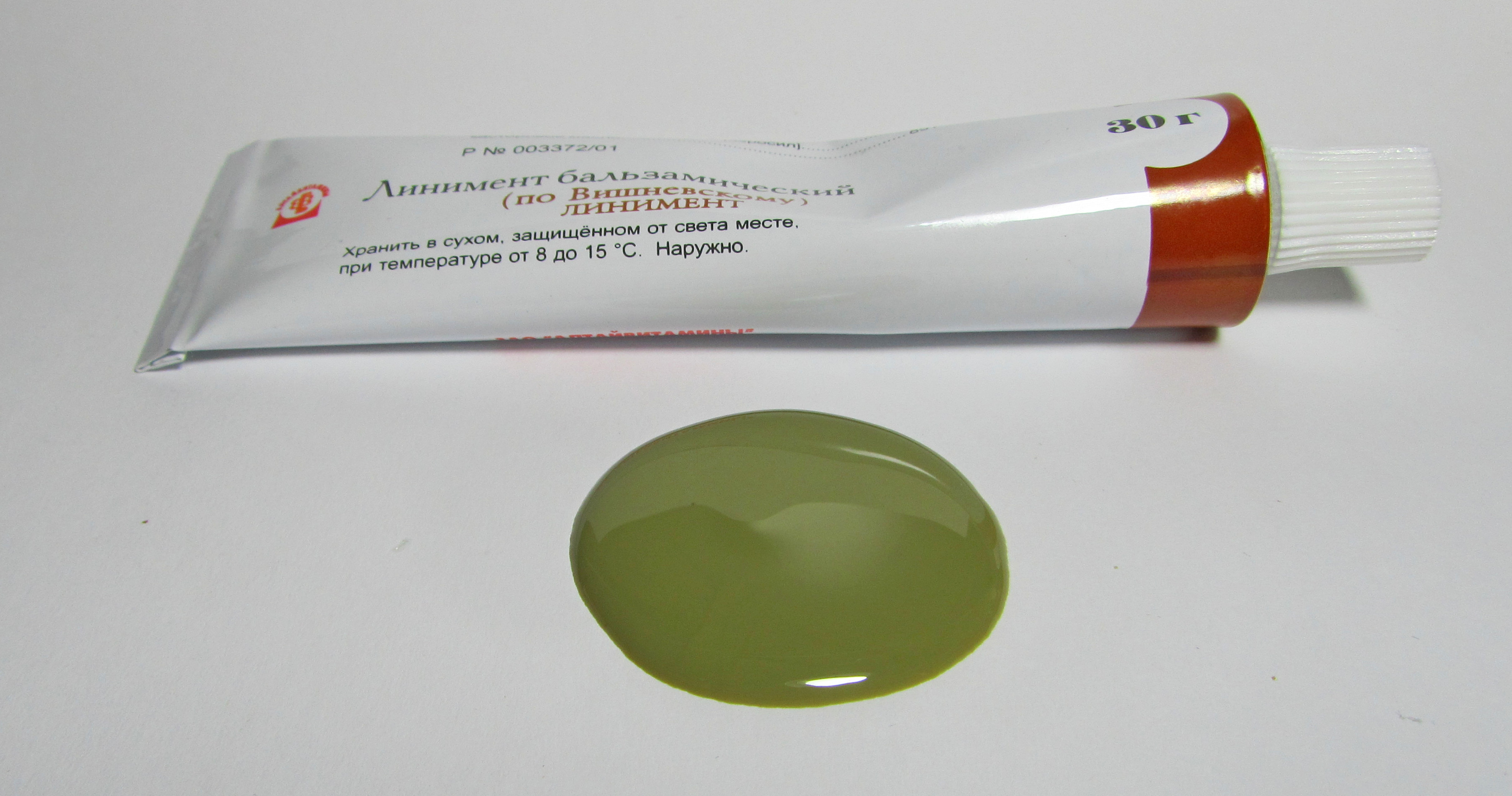 Vishnevsky liniment